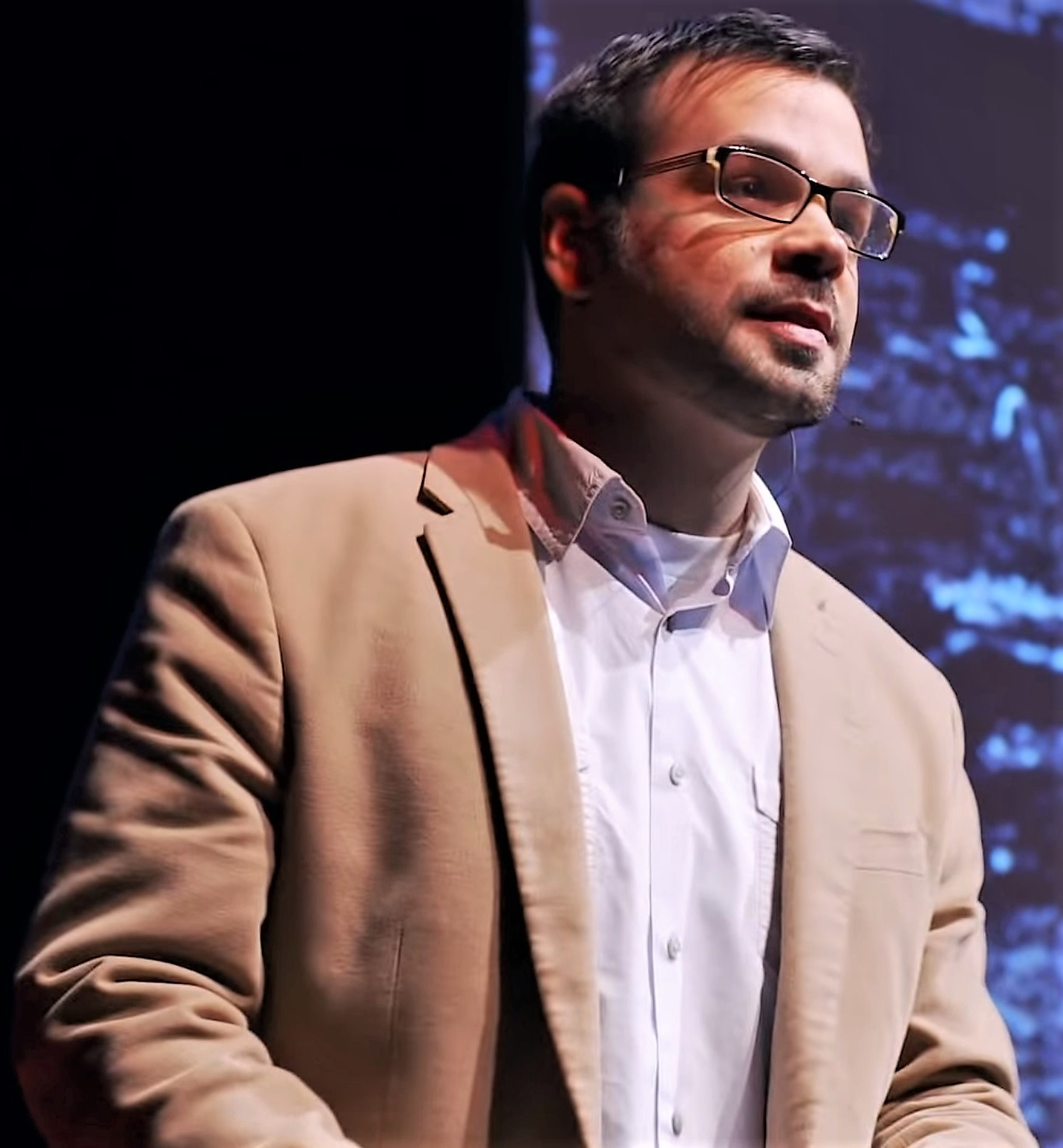 William Pomerantz is the Vice President for Special Projects at Virgin Galactic. William's thrilling answer to the question, "Why is it worth it to explore outer space?" leaves every audience member with a zero-gravity buzz! Will is a graduate from Harvard University, the NASA academy, and the International Space University. Some of the 'Special Projects' Will has worked on are the LauncherOne small satellite launch vehicle and the use of SpaceShipTwo as a research platform, among others. Will is a Trustee of the Students for the Exploration and Development of Space (SEDS), the world's largest student space organization. He is also a member of the American Institute of Aeronautics and Astronautics Space Operations & Support Technical Committee. From 2005 - 2011, he worked at the X Prize Foundation, the world-leading incentive prize organization. As Senior Director of Space Prizes, he served as the primary author and manager of the $30 million Google Lunar Prize and the $2 million Northrop Grumman Lunar Lander X CHALLENGE. Will has also worked at Harvard and Brown Universities, the Futron Corporation, and the United Nations. In the spirit of ideas worth spreading, TEDx is a program of local, self-organized events that bring people together to share a TED-like experience. At a TEDx event, TEDTalks video and live speakers combine to spark deep discussion and connection in a small group. These local, self-organized events are branded TEDx, where x = independently organized TED event. The TED Conference provides general guidance for the TEDx program, but individual TEDx events are self-organized.* (*Subject to certain rules and regulations)